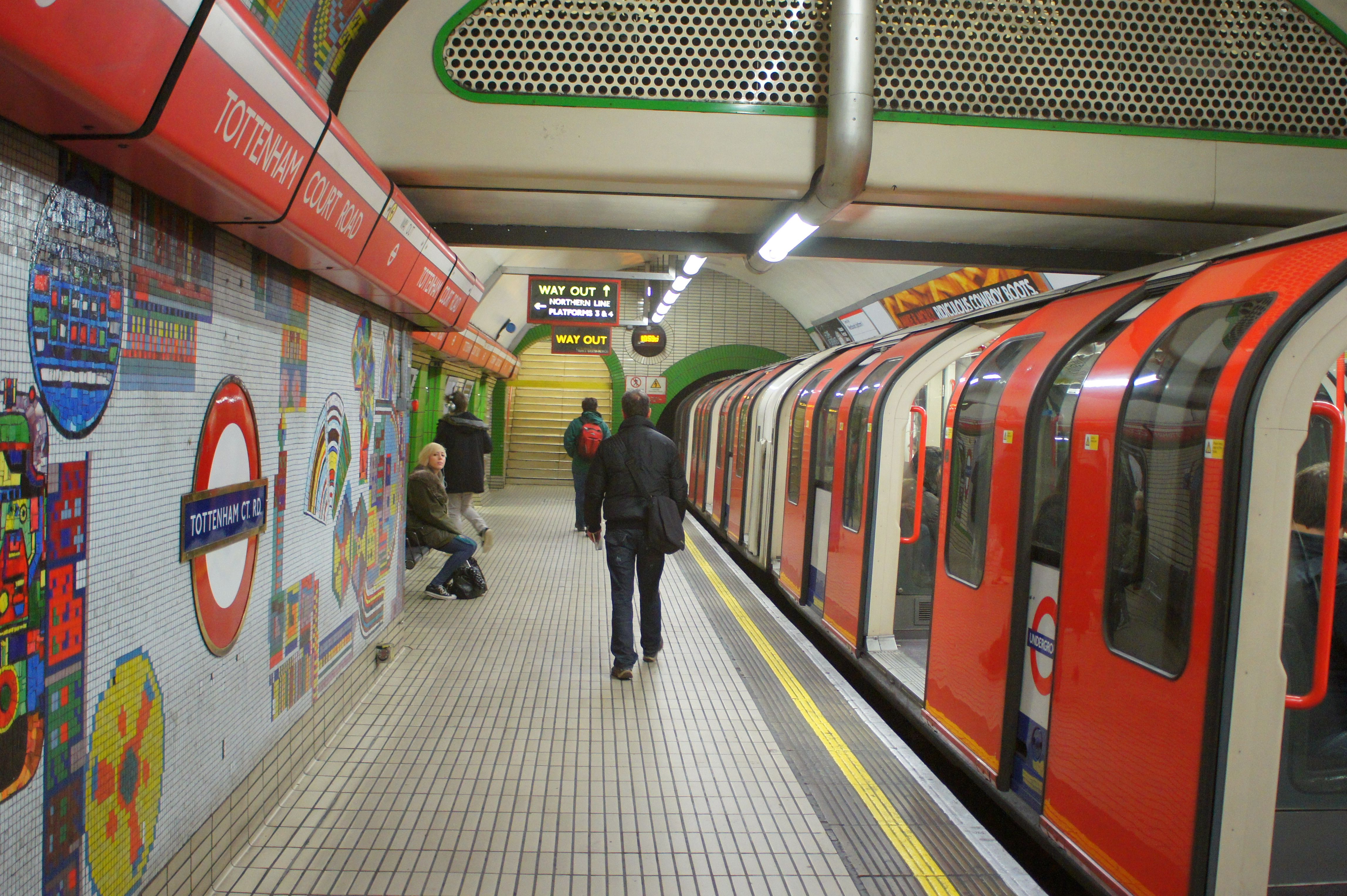 TOTTENHAM COURT ROAD-2 CPS 190211